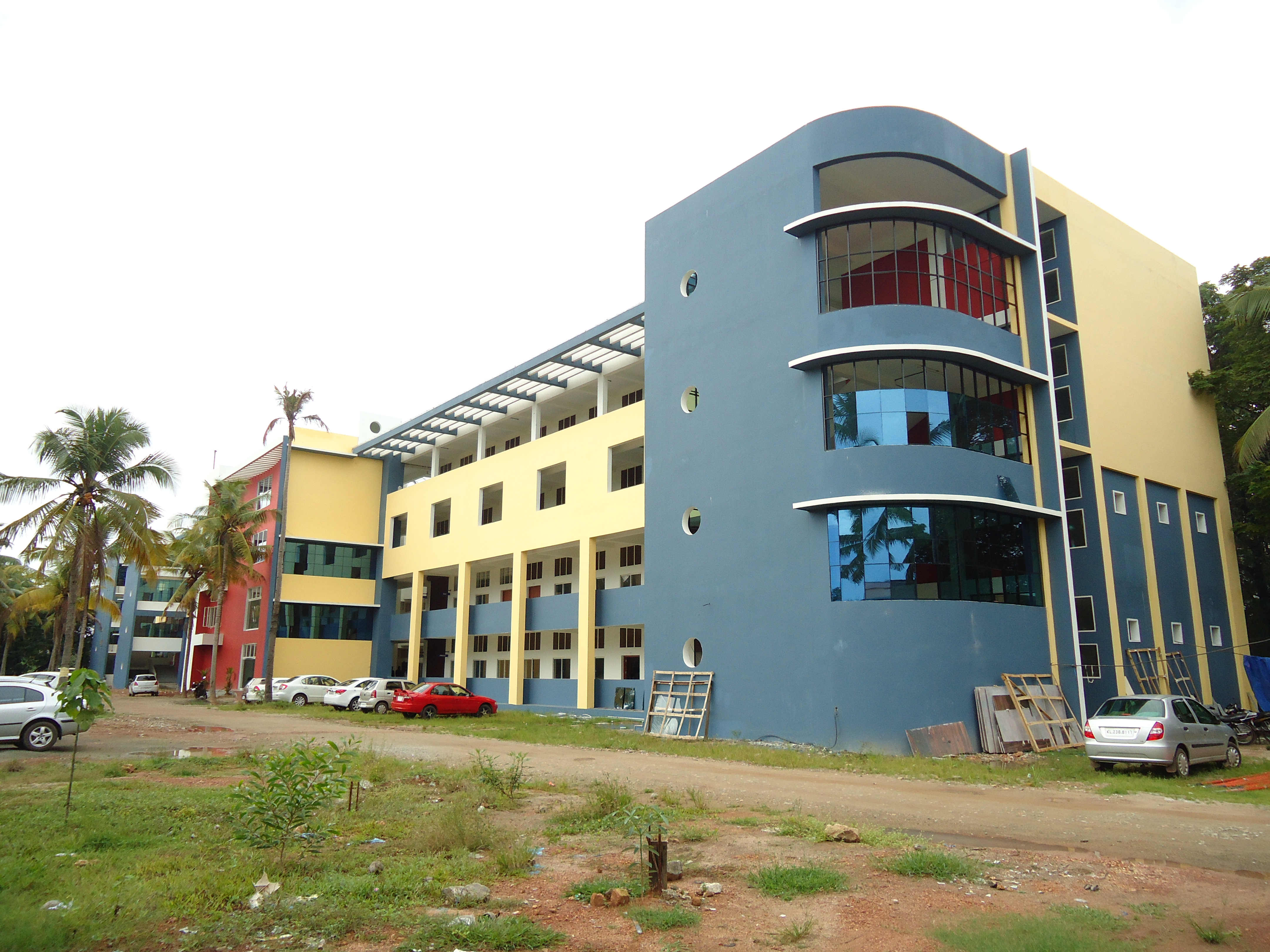 Bishop Jerome Institute, Kollam - An integrated campus offering MBA, Architecture and Engineering courses, situated at the heart of the 'Lake City of Kerala'